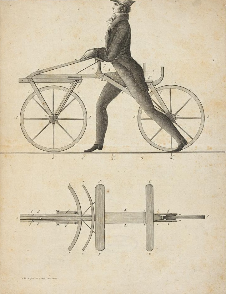 Badenian army staff messenger on a dandy horse (draisine), 1817. Very early depiction of a bicycle messenger.